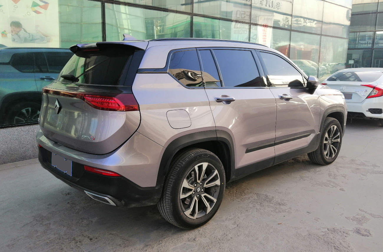 Baojun RS-5 photographed in Yinchuan, Ningxia autonomous region, China.